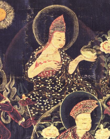 Ga Lotsawa Zhonnu Pel, 11th Century Tibetan Trsnslator